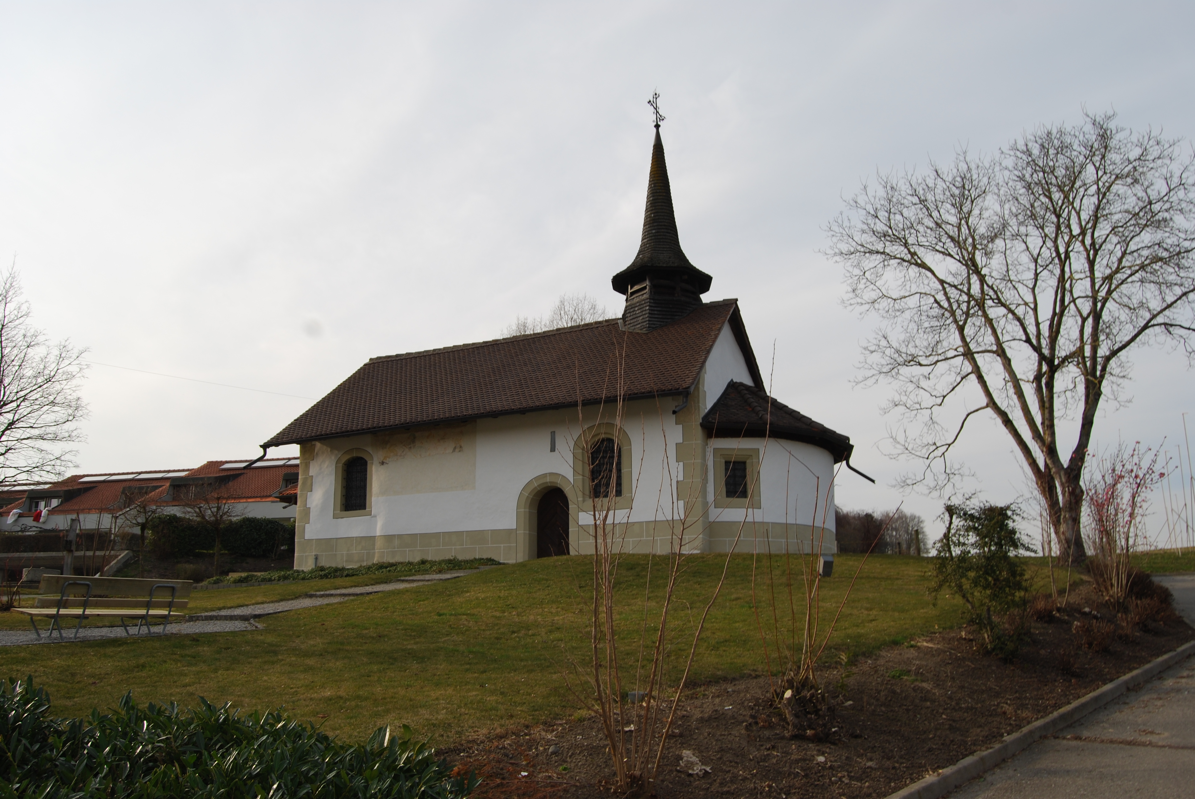 Chapel Saint-Georges at Corminboeuf, canton of Fribourg, Switzerland